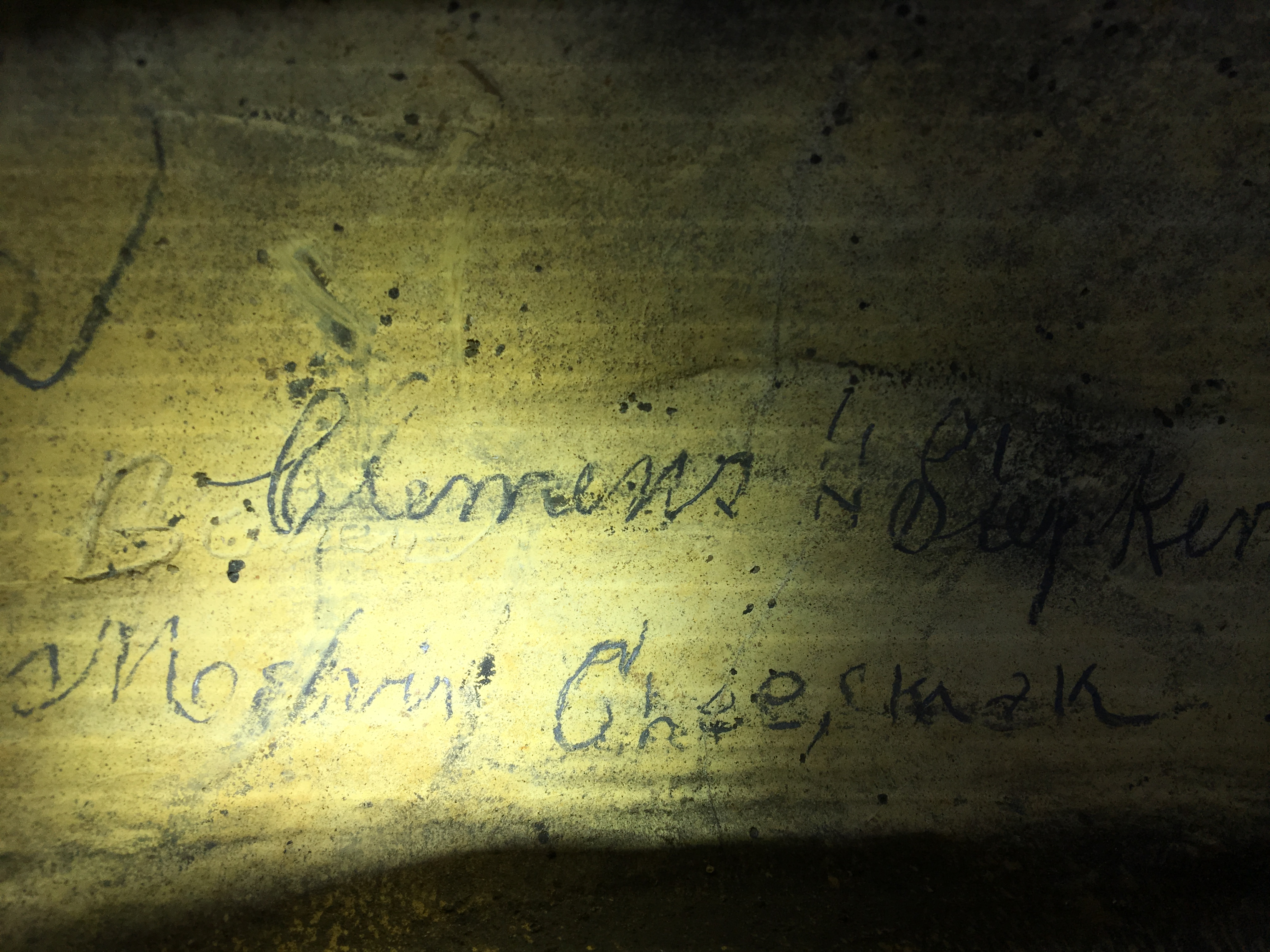 First photo taken of Sam Clemens's boyhood signature inside Mark Twain Cave